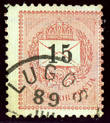 Kingdom of Hungary 15 kr stamp, issue June 1888,cancelled in 1889 at LUGOS, Timis County (Banat, Romania)